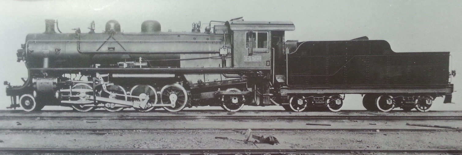 Builder's photo of Manchukuo National Railway Mikai1-1500.